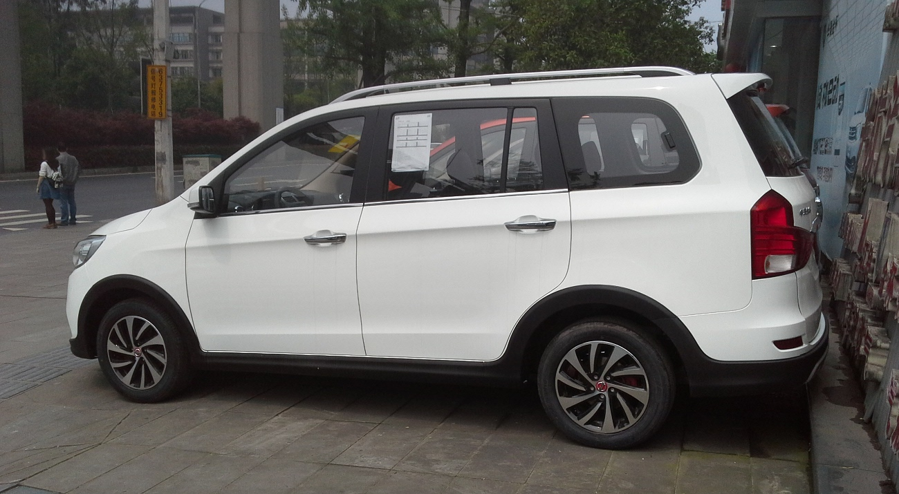 Jinbei 750 photographed in Chongqing, China.